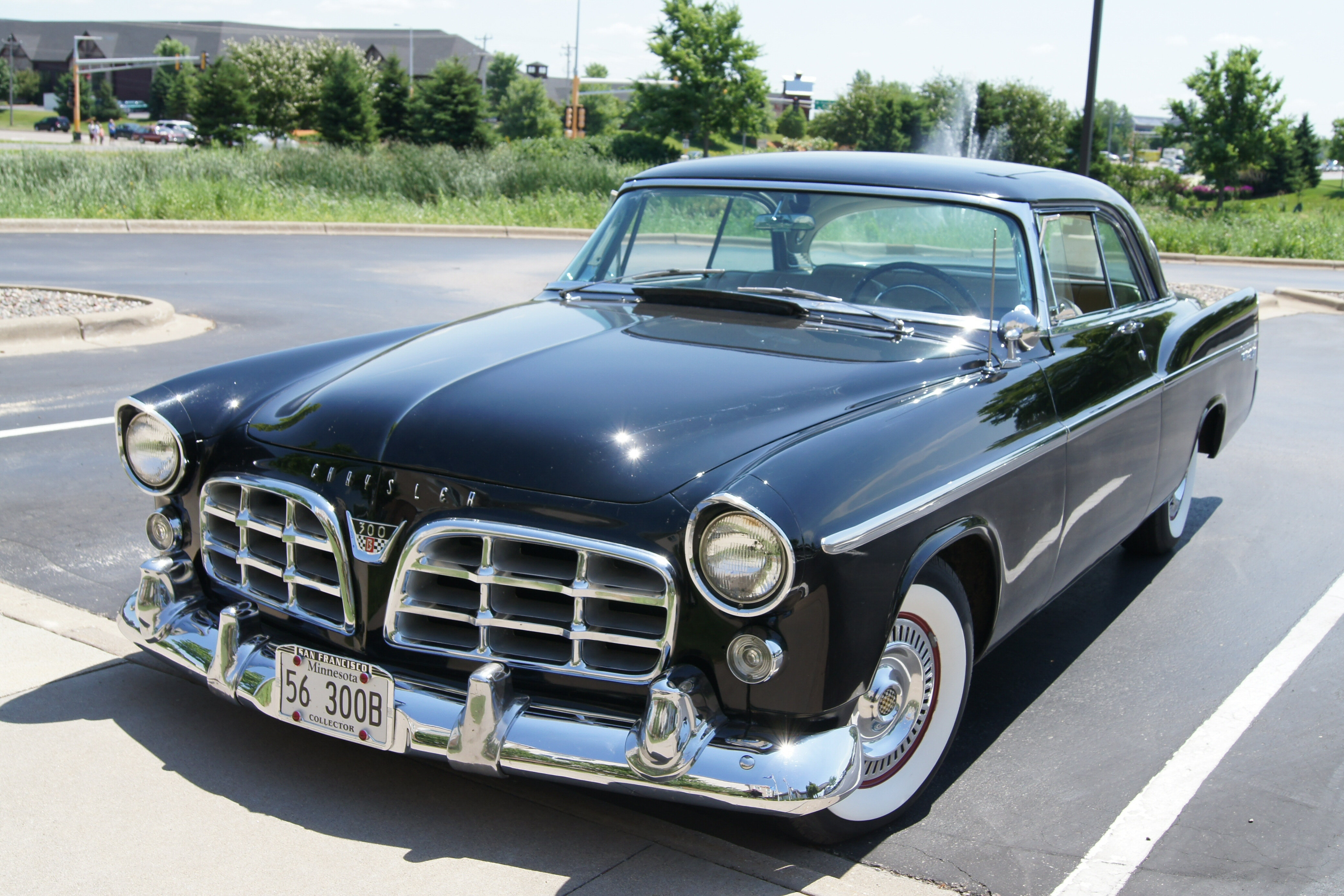 1st Combined Convention 28th Annual National DeSoto Club Convention & 44th Annual Walter P.Chrysler Club Convention July 17 - 21, 2013 Lake Elmo, Minnesota Click link below for more car pictures